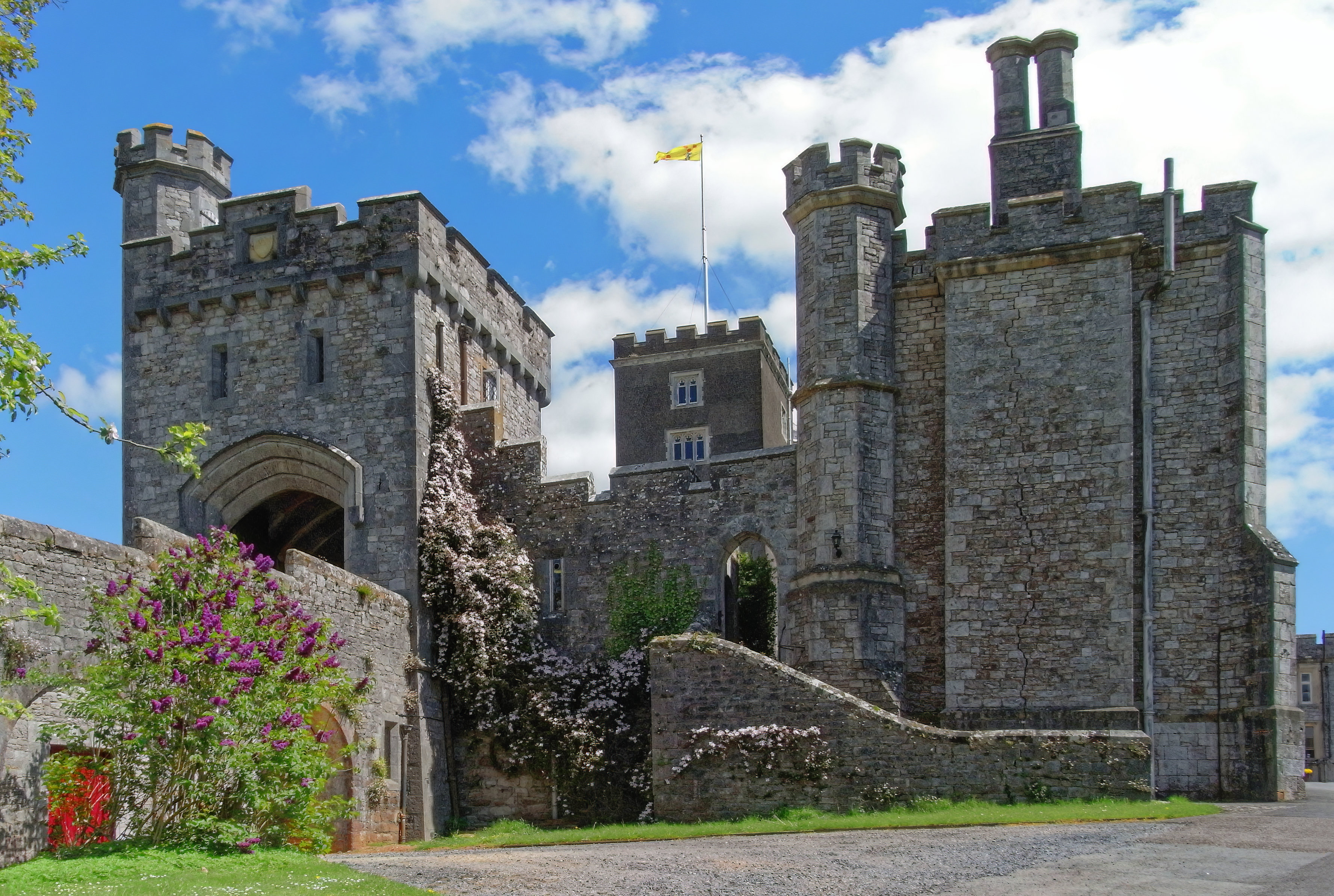 Powderham Castle, Devon, view of the Victorian entrance tower and causeway